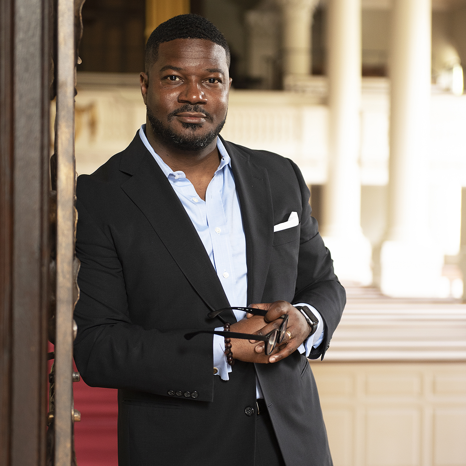 Jonathan L. Walton, the Plummer Professor of Christian Morals and the Pusey Minister in the Memorial Church of Harvard University, is an acclaimed author, social ethicist and religious scholar.